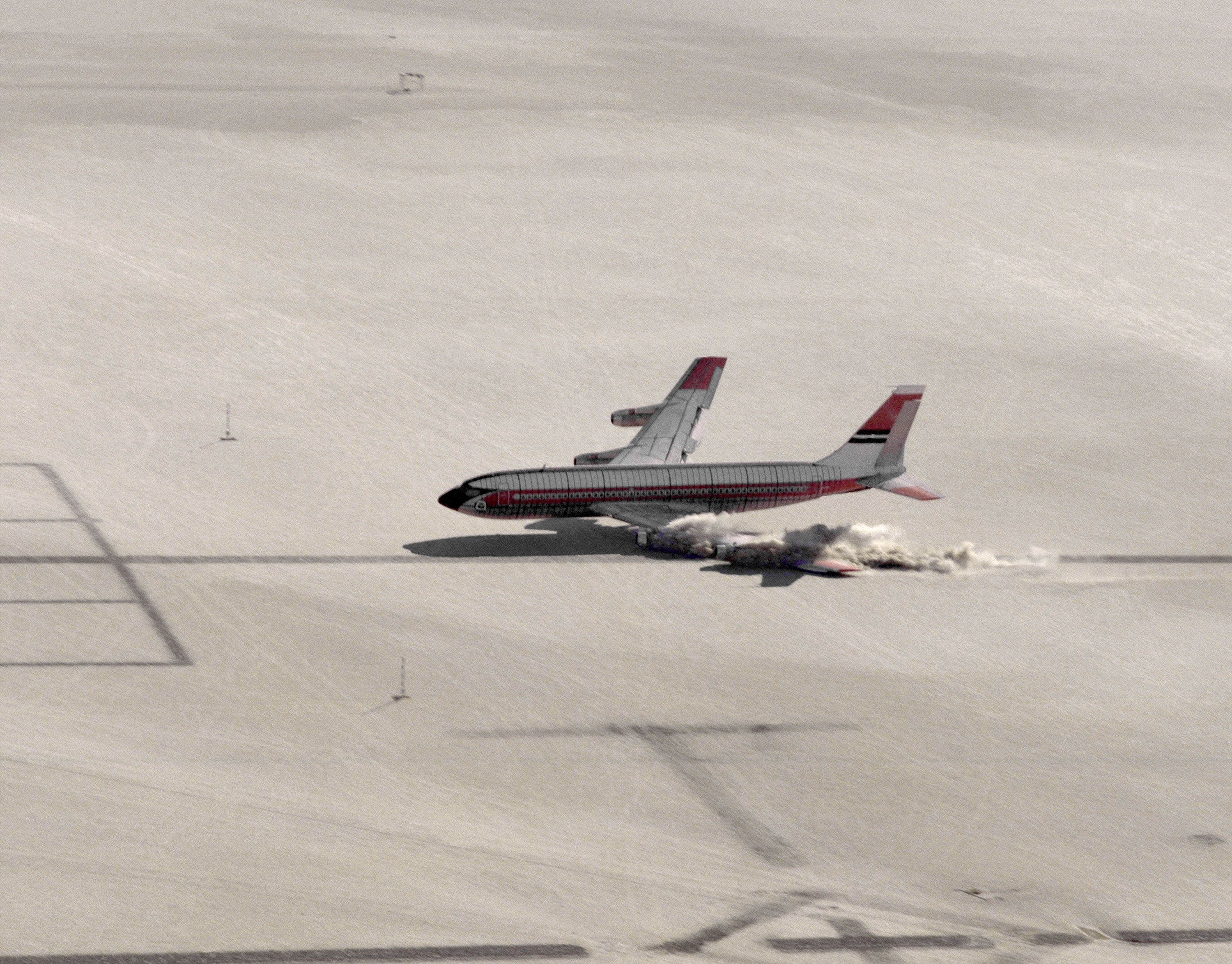 CID Aircraft slap-down